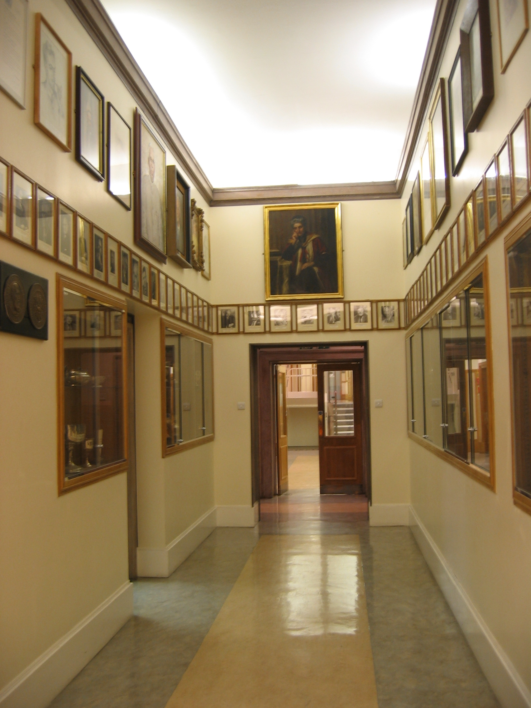 Inside LSE Old Building